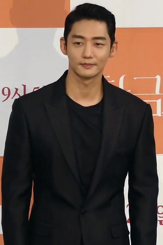 Lee Tae-sung at "The Golden Garden" press conference on July 19, 2019.